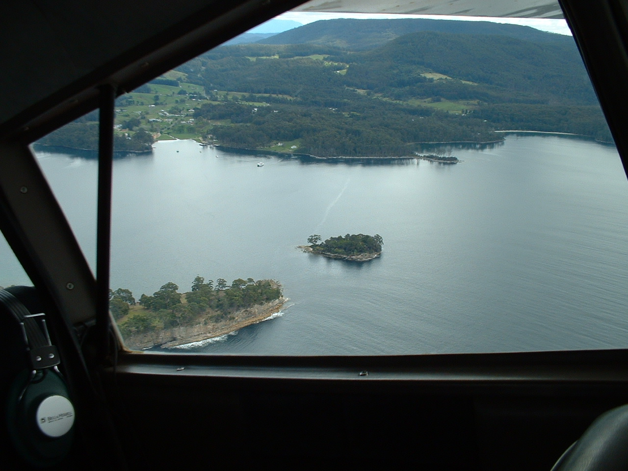 View of Port Arthur, Tasmania, showing Point Puer bottom left, the Isle of the Dead in the centre, and the main prison area in the top left corner. Taken from the seaplane.